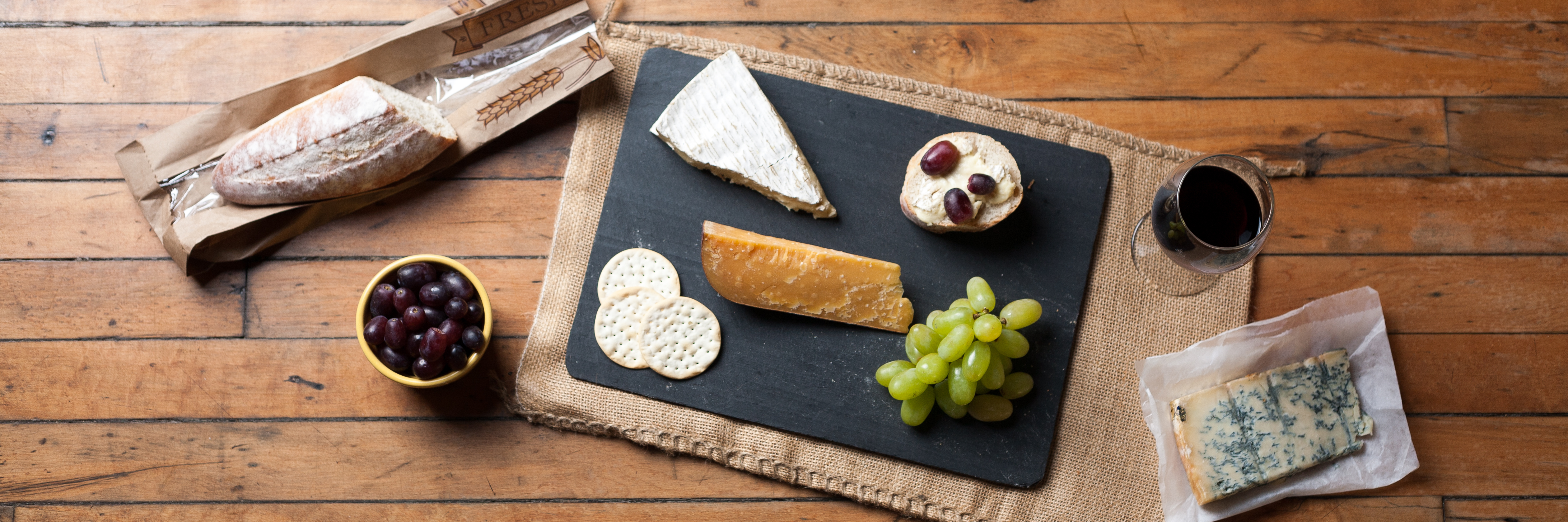 Nothing pairs as well as craft wine and good cheese